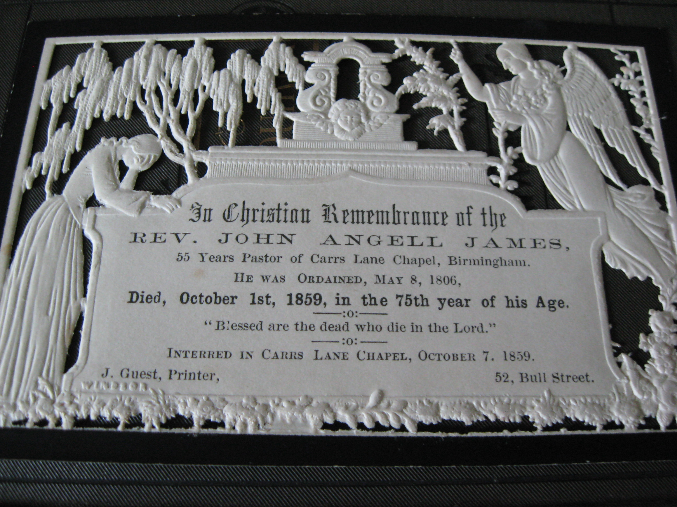 An 'In Memoriam' card commemorating the life of John Angell James (1785-1859), minister of Carrs Lane Chapel, Birmingham.